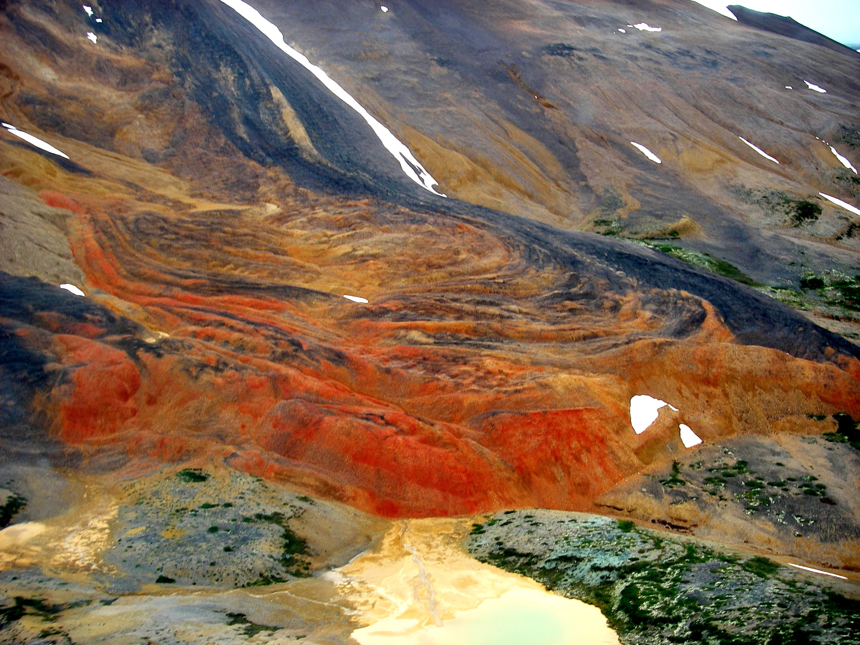 Strange flows near the Raspberry Pass area of the Spectrum Range.